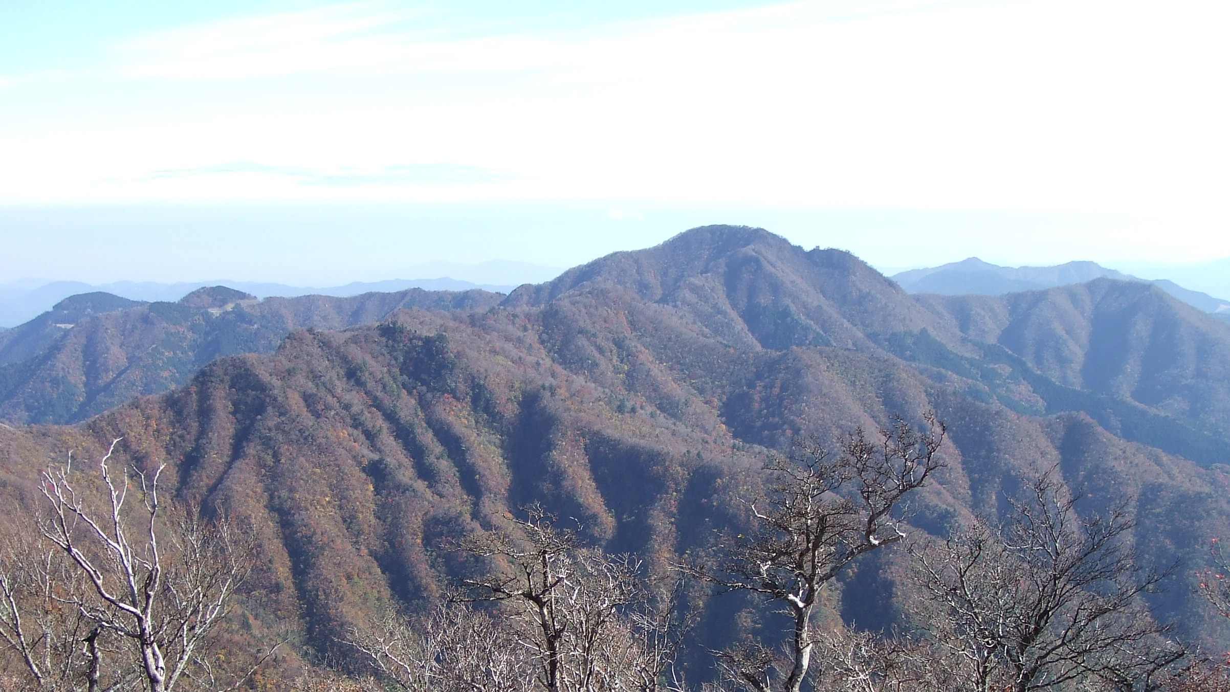 Mount Takamaru (Takamaru-yama) seen from the northwest. Teken from Mount Kumoso.